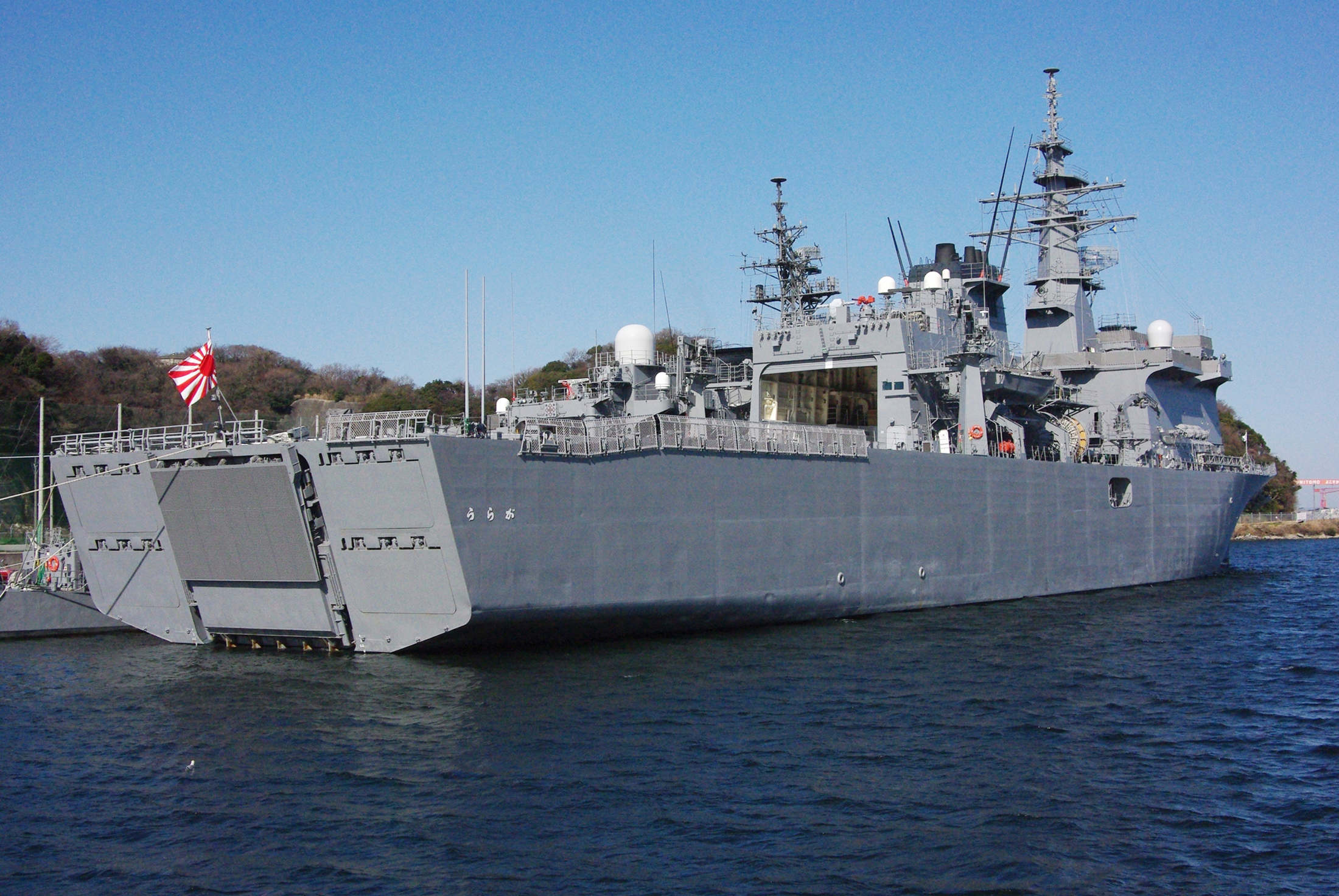 JS Uraga (MST-463) at Yokosuka.